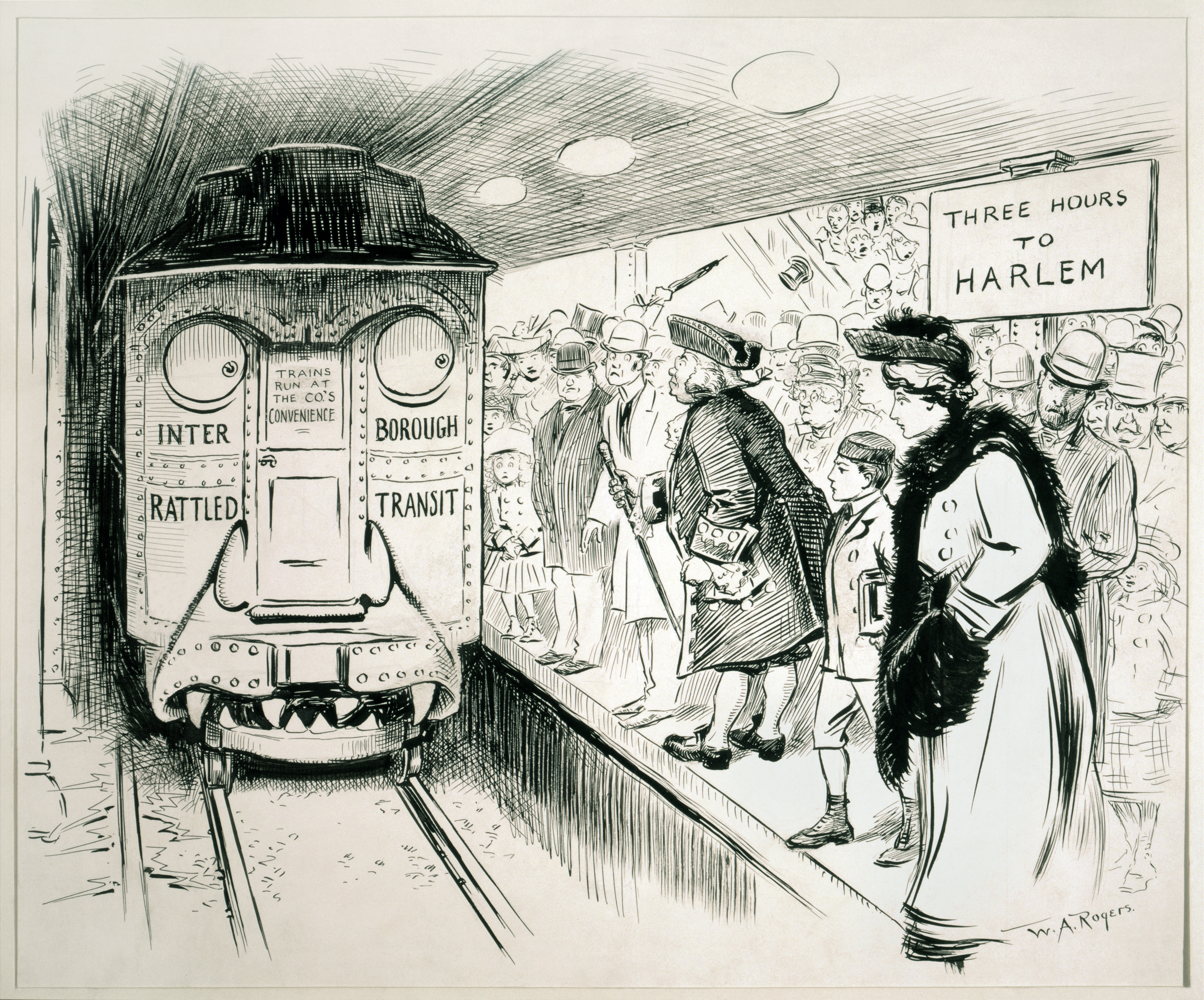 Political cartoon that ran in the New York Herald on March 24, 1905 regarding lousy service of the Interborough Rapid Transit (integrated into the New York City Subway in 1940). The subway car is labeled "Interborough Rattled Transit" with a sign that states "Trains run at the Co.'s convenience". Above the waiting patrons is a sign that reads "Three hours to Harlem".